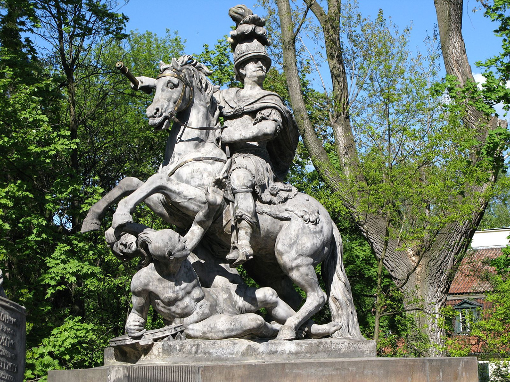 John III Sobieski, one of the greatest kings of Poland and commanders in history. Slayer of the Ottomans. Savior of Vienna.